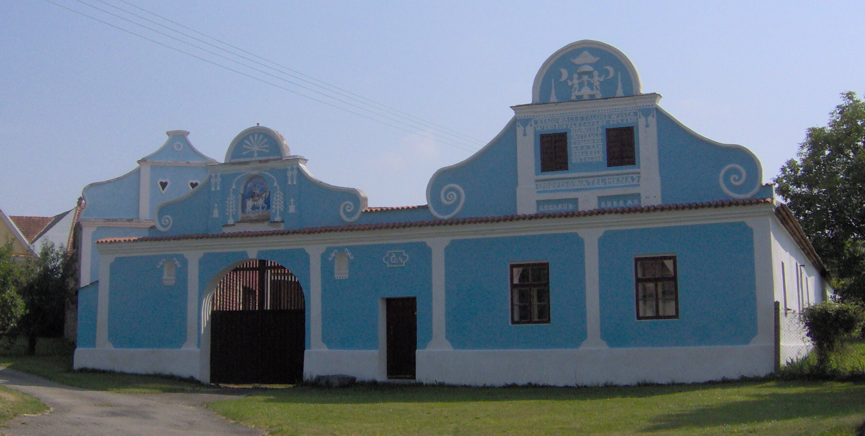 House in Jiřetice, part of Čepřovice, Strakonice District, Czech republic